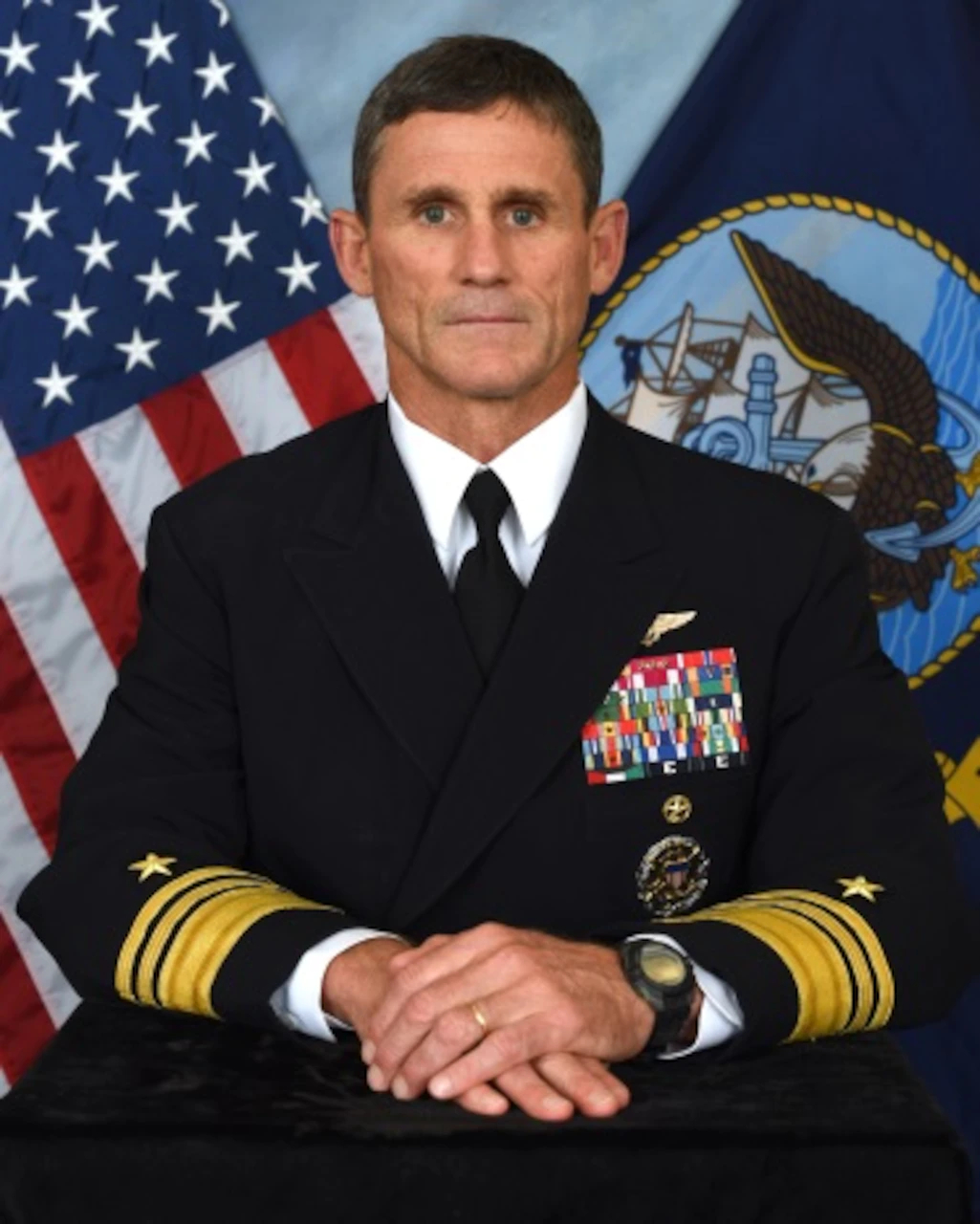 Vice Adm. Andrew L. Lewis